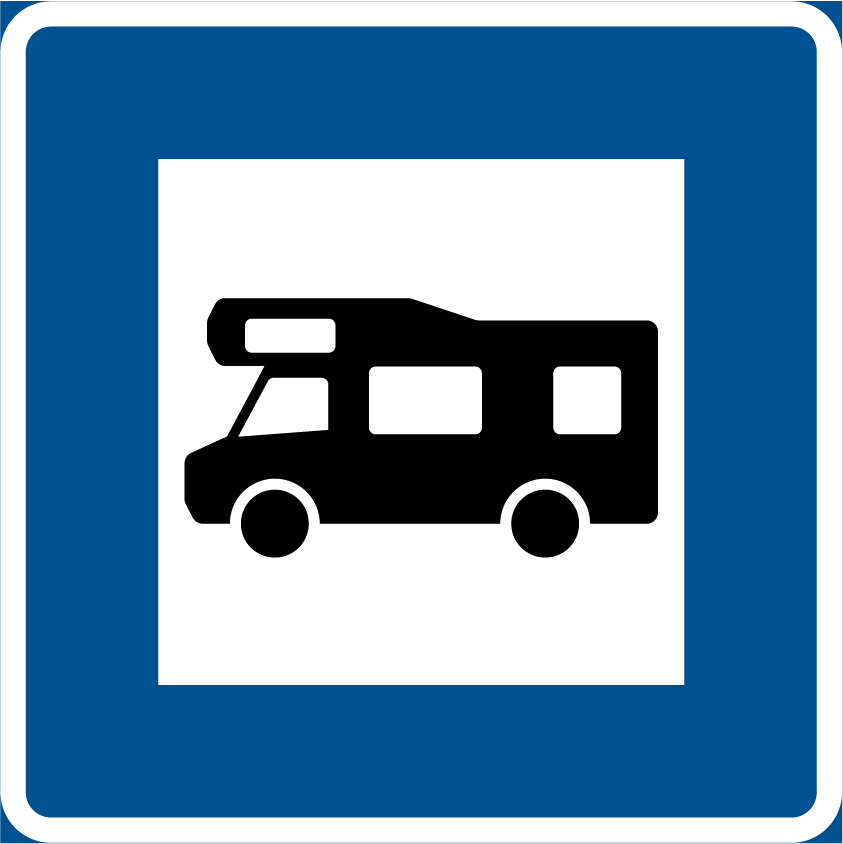 Sweden road sign: Information signs - Motorhome Site